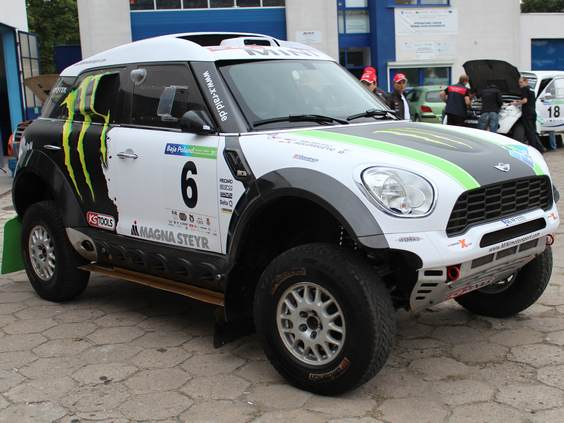 Krzysztof Hołowczyc (driver, POL), Filipe Palmeiro (co-driver, POR), Mini All4 Racing, Monster Energy X-Raid Team, Baja Poland 2012